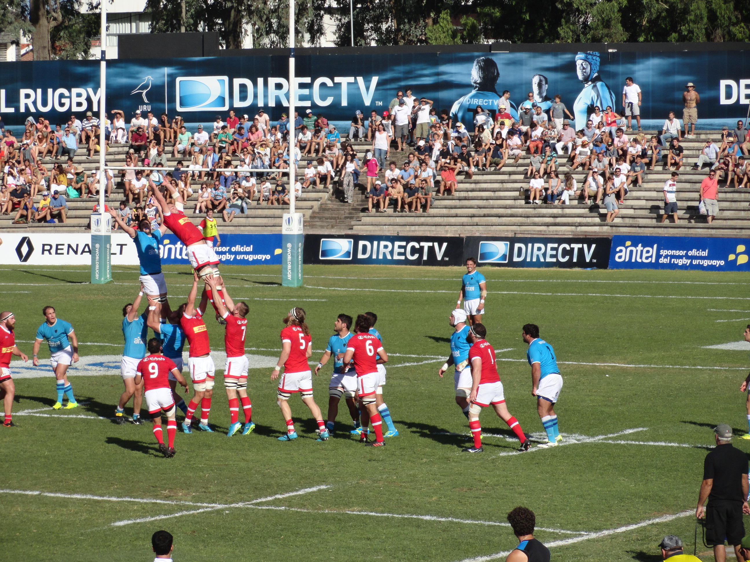 Americas qualifying play-off match for the 2019 Rugby World Cup between Uruguay and Canada.